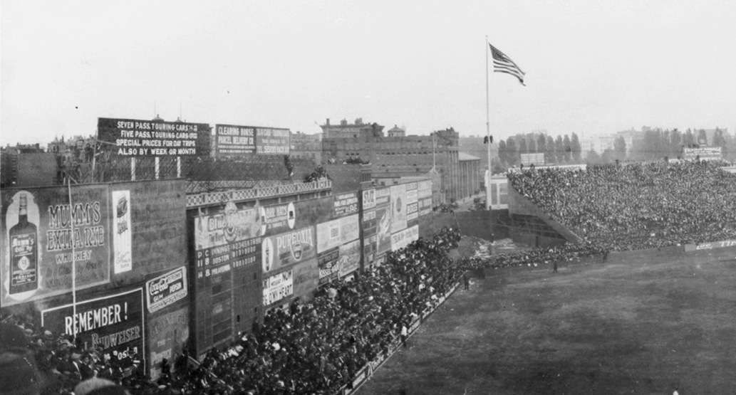 The Green Monster in Fenway Park during Game 3 of the 1914 World Series. → This file has been extracted from another image: File:Fenway Park Panorama 1914.jpg.